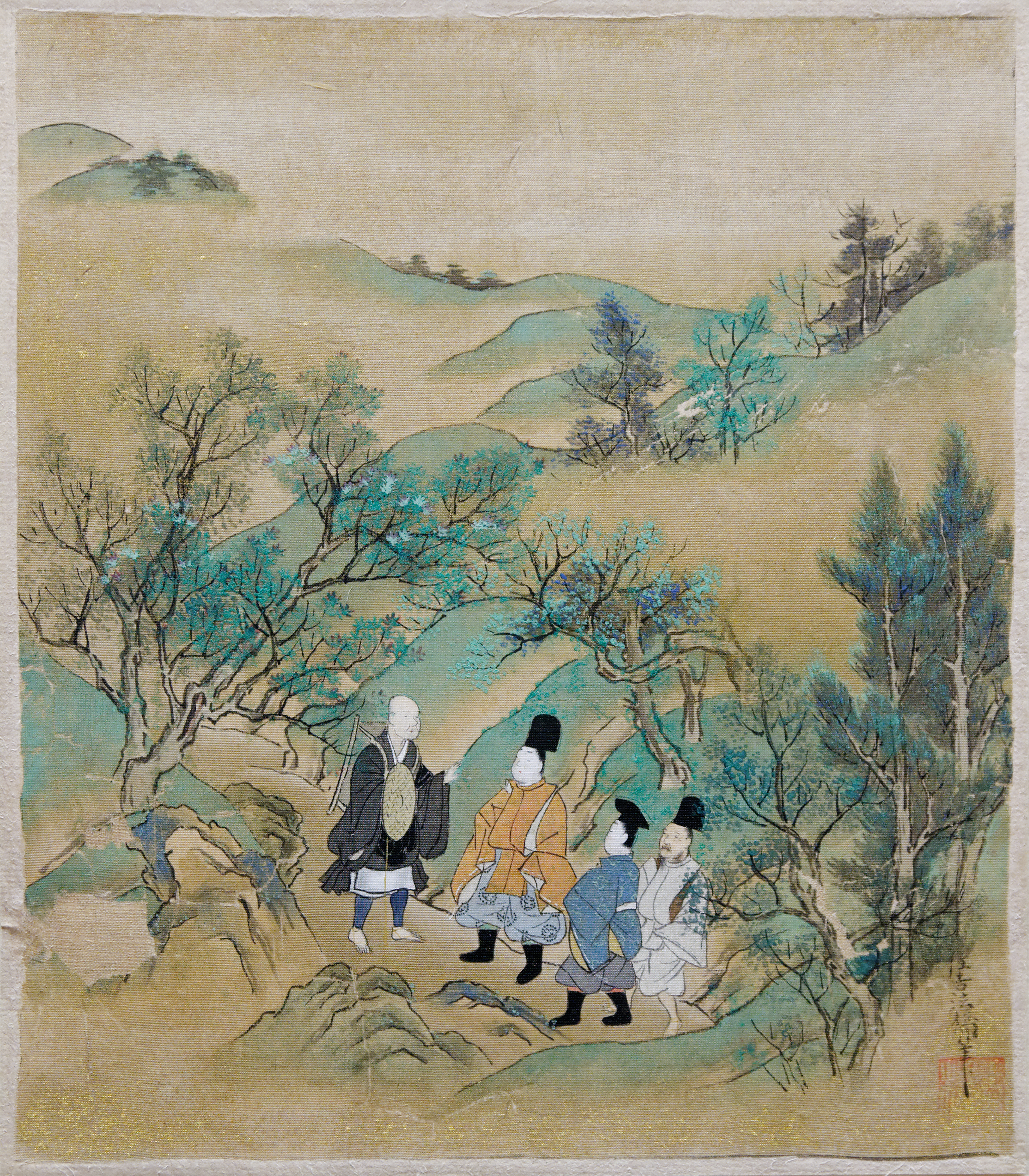 Episode 9 of the Tales of Ise (伊勢物語, Ise monogatari): journeying to the East, the hero gives a poem to a hermit on mount Utsu; corresponding calligraphy by a courtier.